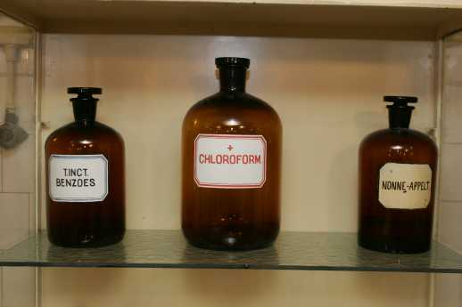 Hospital in the Rock, Glasses